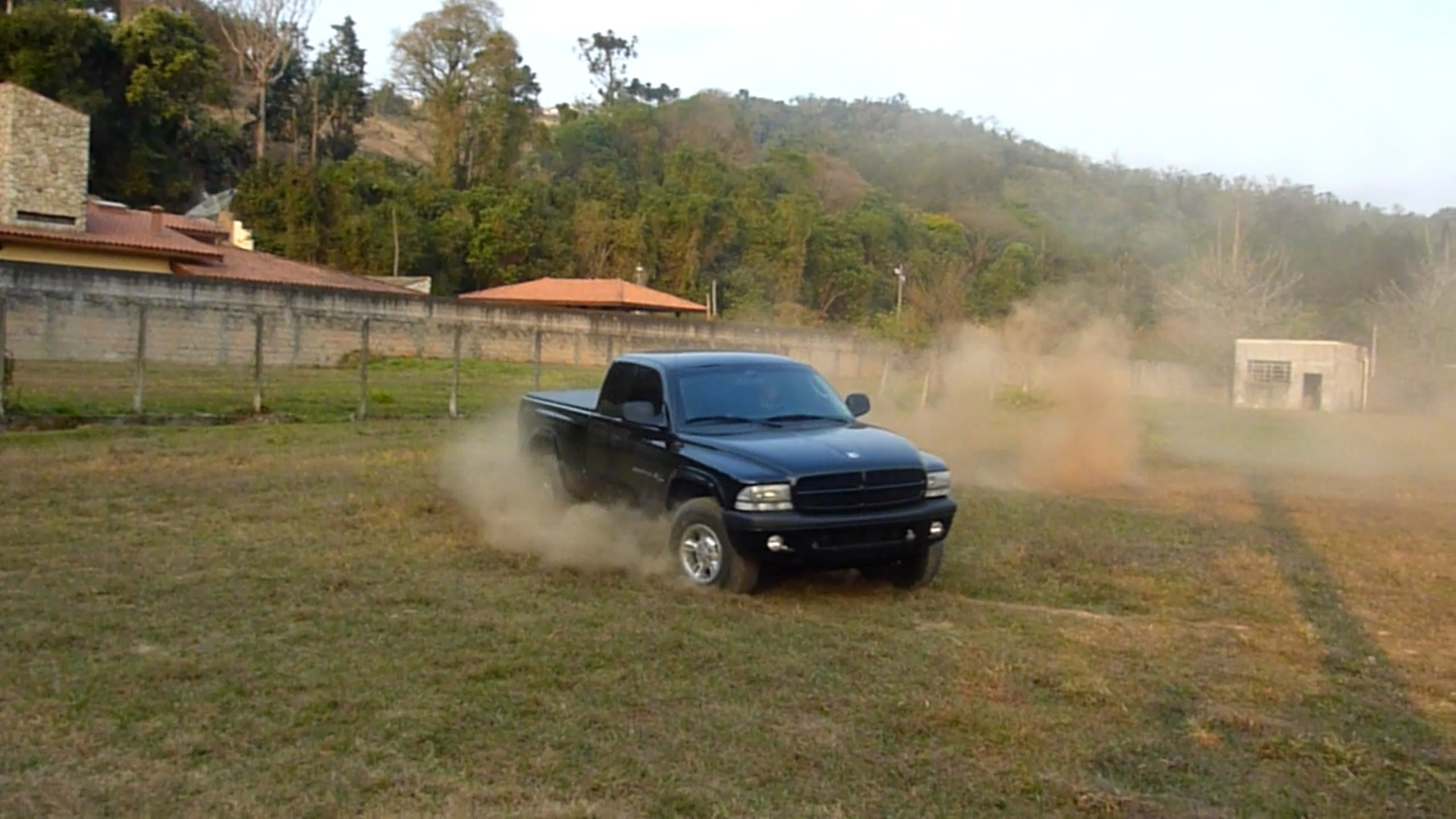 Dodge Dakota R/T 1999 test drive in Casablanca, Chile.